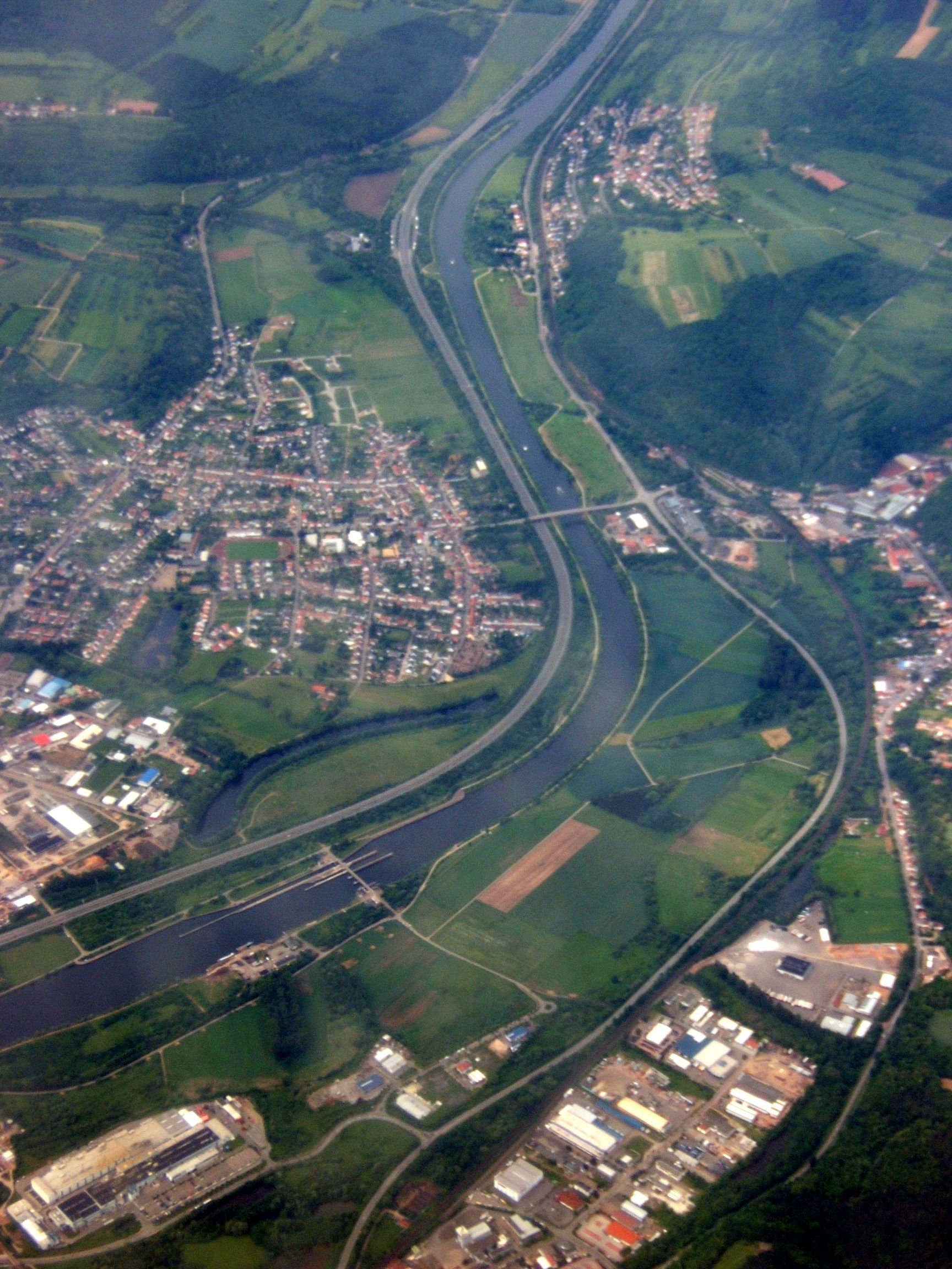 Rehlingen an der Saar (part of Rehlingen-Siersburg), Germany (left side); on the right side of the Saar river are Gewerbegebiet Dillingen-Nord (bottom), parts of Beckingen (center) and Saarfels (top, also part of Beckingen)